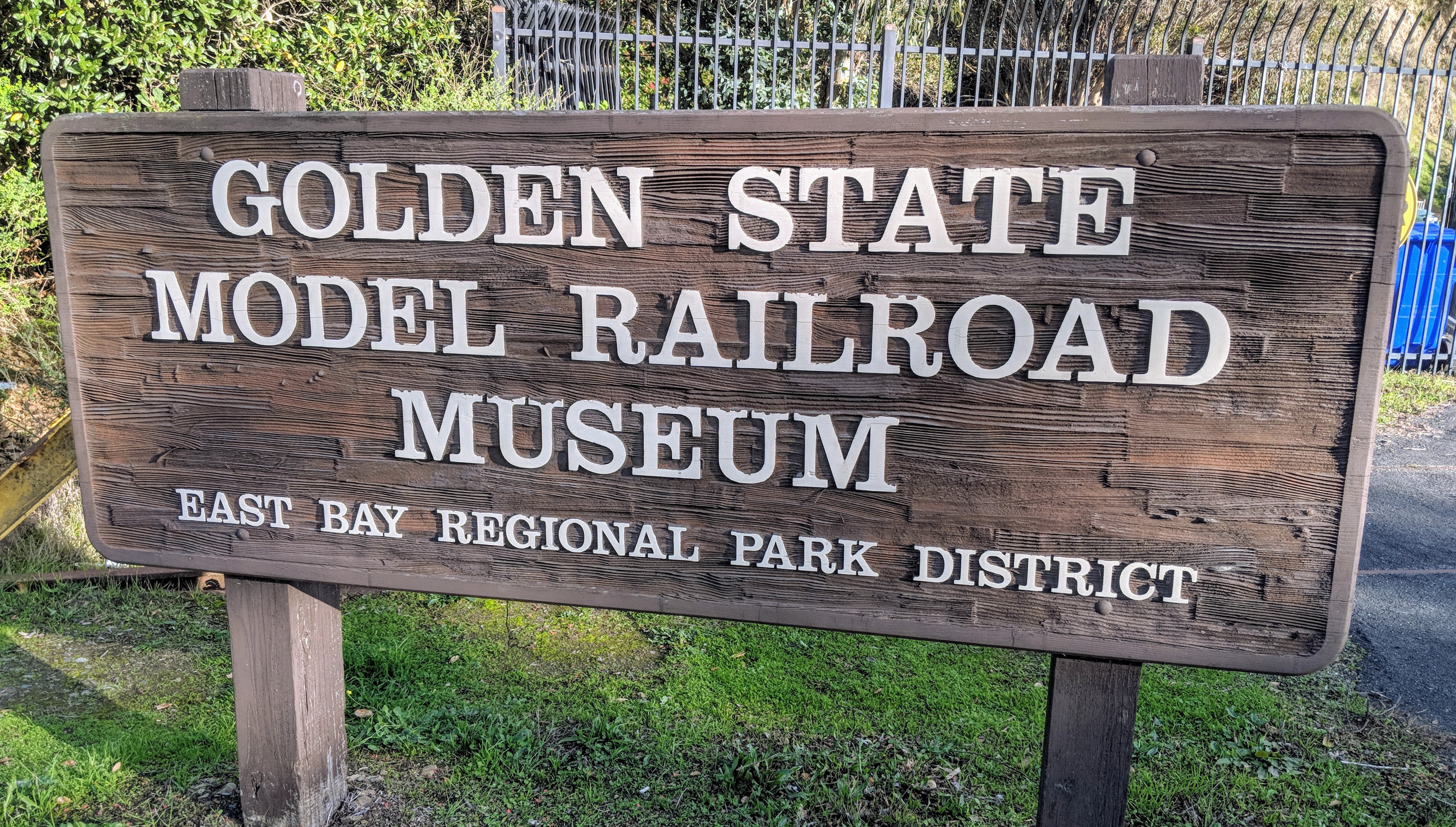 Museum sign in Point Richmond, California. Photo by Jim Heaphy.